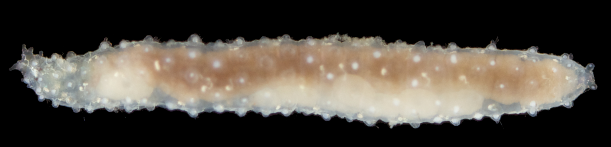 Sphaerodoropsis disticha